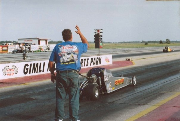 Jr dragster